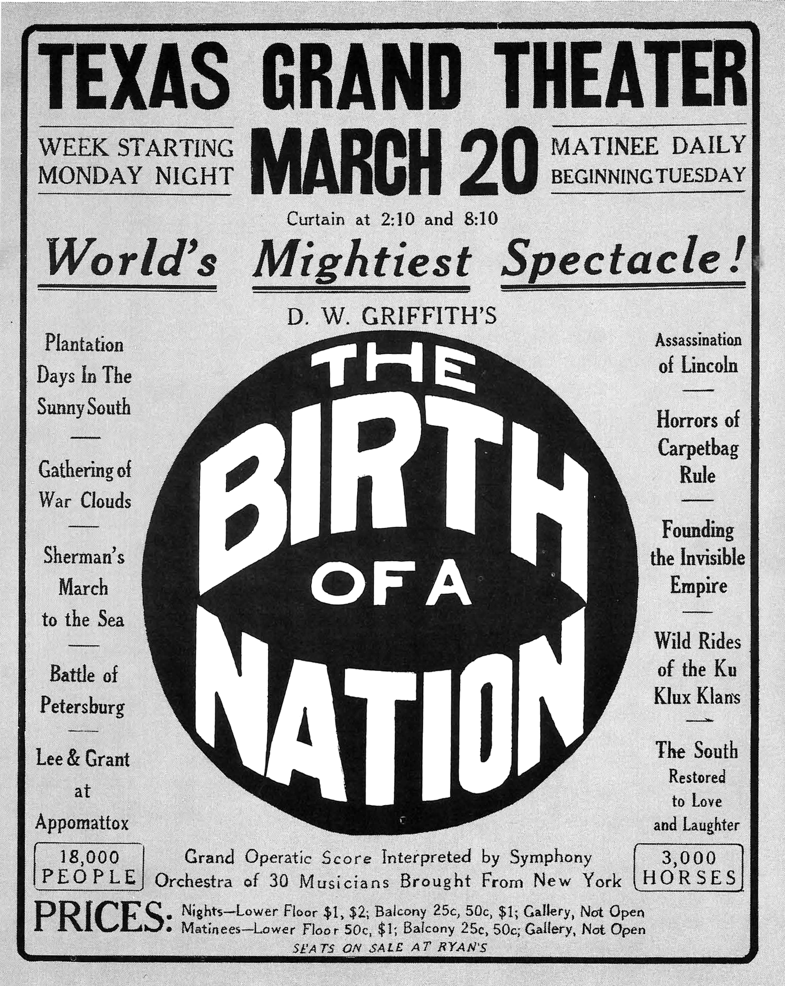 A 1916 newspaper advertisement for the film The Birth of a Nation, showing at the Texas Grand Theater in El Paso, Texas.